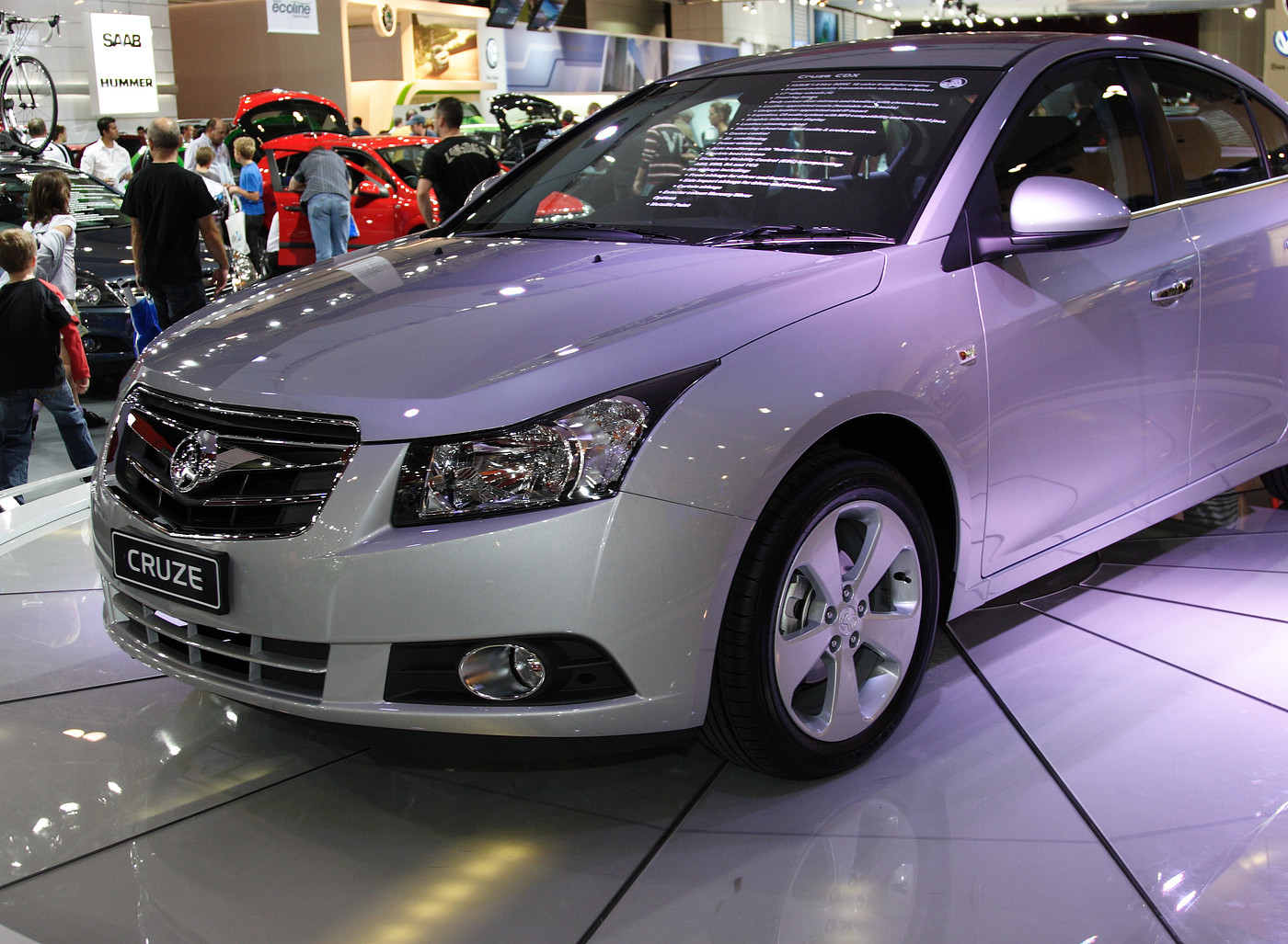 2009 Holden JG Cruze CDX sedan, photographed at the 2009 Melbourne International Motor Show, Southbank, Victoria, Australia.